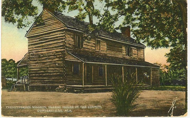 Old Mission in Guntersville, Marshall County, Alabama